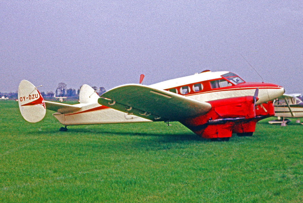 KZ IV second example built at Hannover Airport in 1964